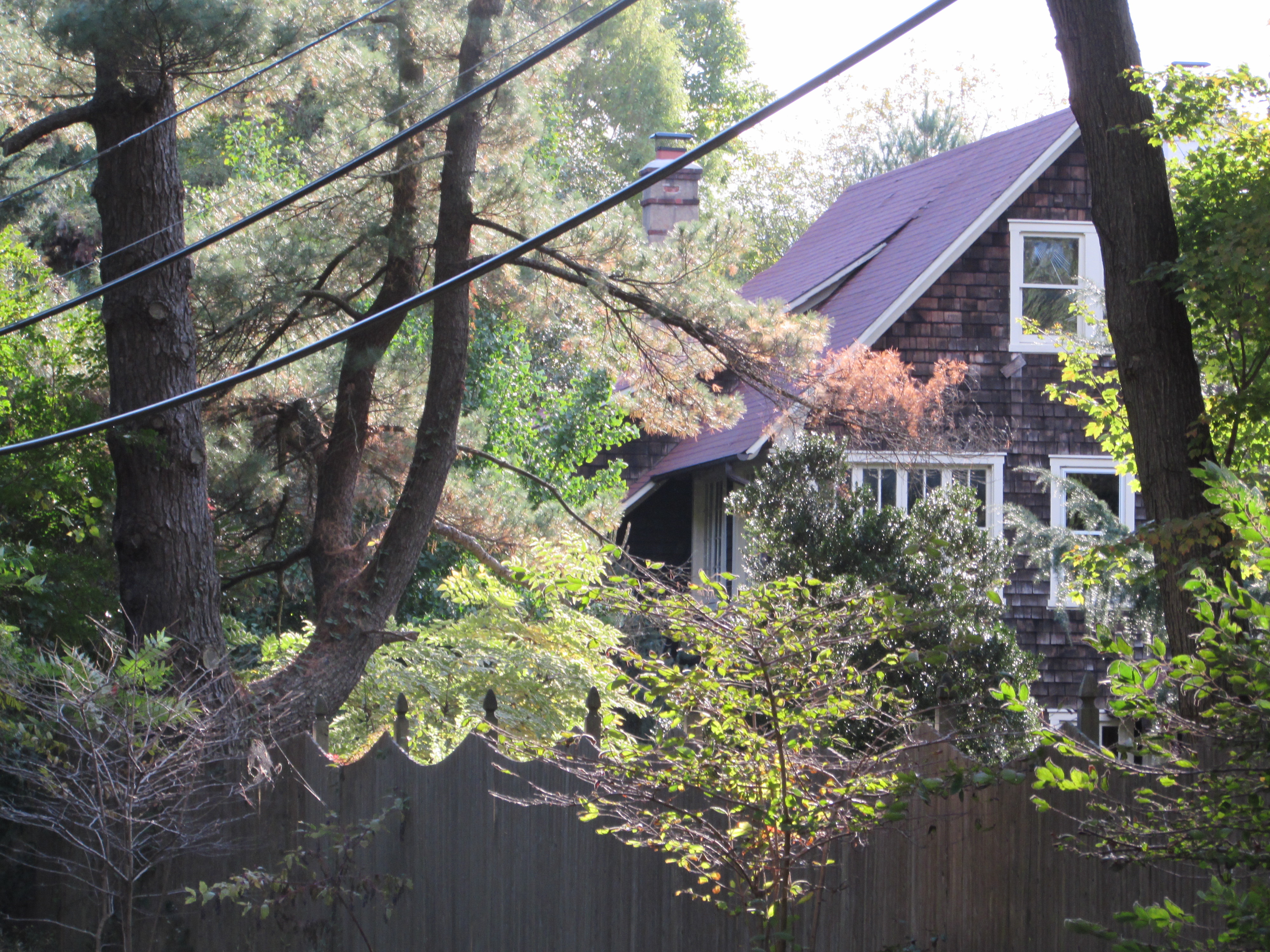 Side view at a distance of the Charles and Edith Liedlich House near Newark, Delaware.